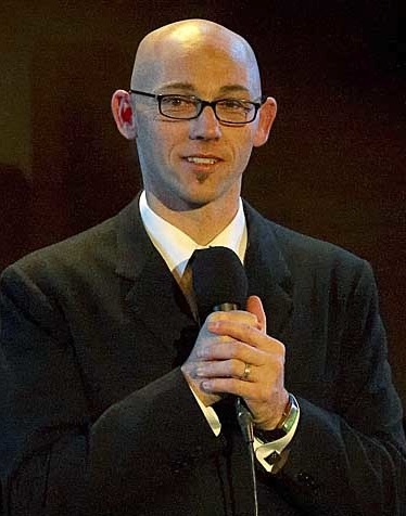 Ian Harris on set of his hour special Critical & Thinking. Photo by Russell Orrell